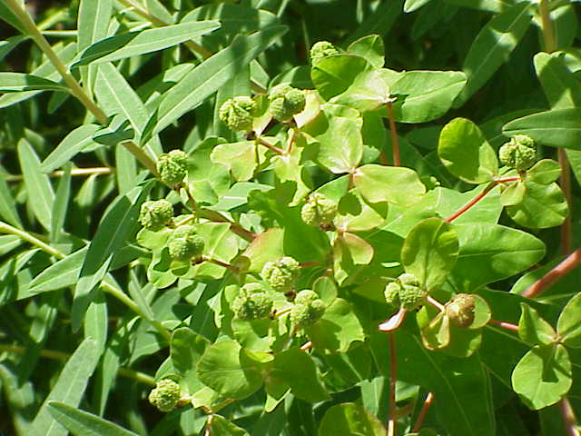 Species: Euphorbia palustris Family: Euphorbiaceae Image No. 2